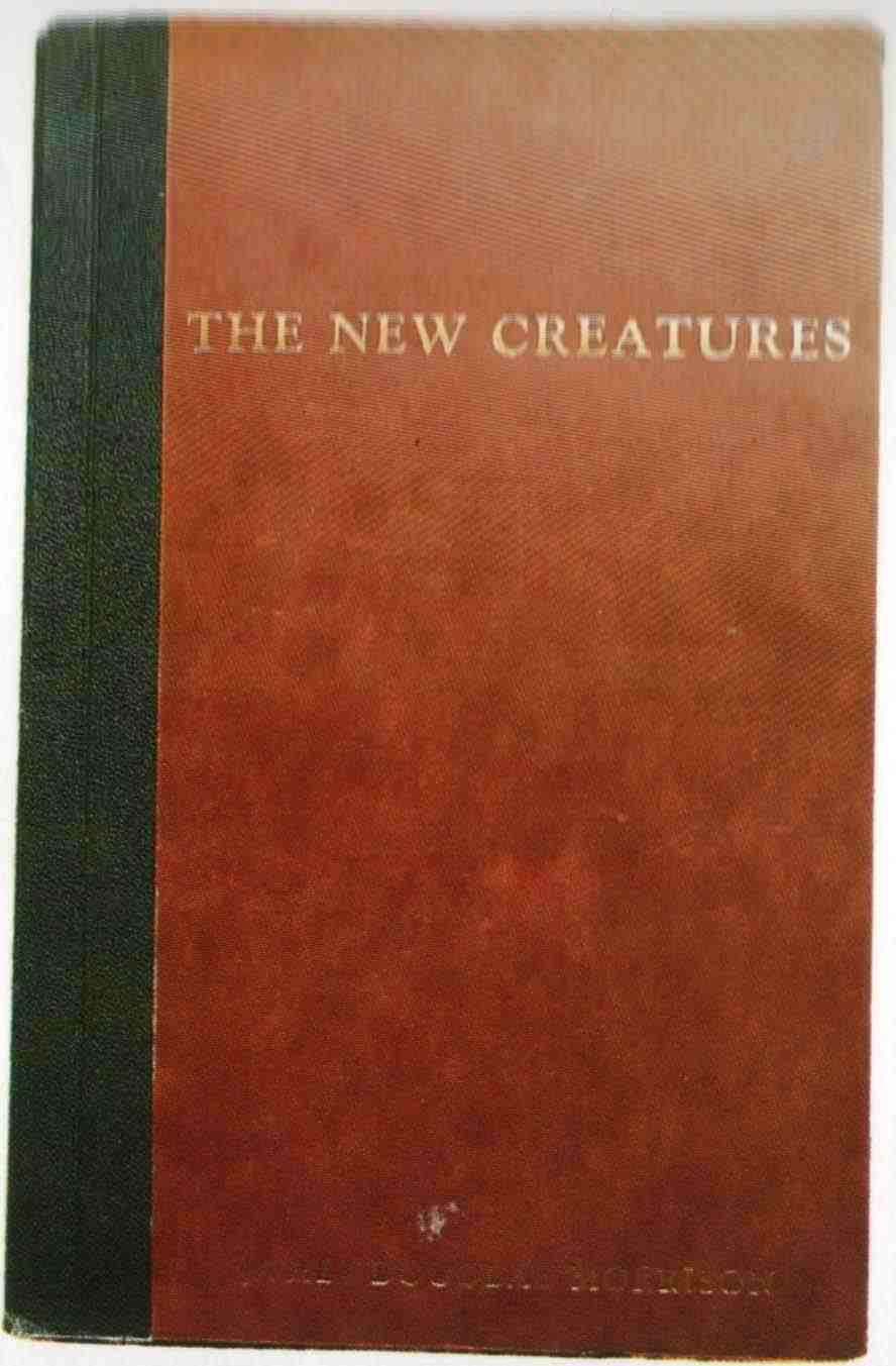 Book cover of Jim Morrison, The New Creatures. Private print at Western Lithographers, Los Angeles, April 1969 (print run: 100 copies)